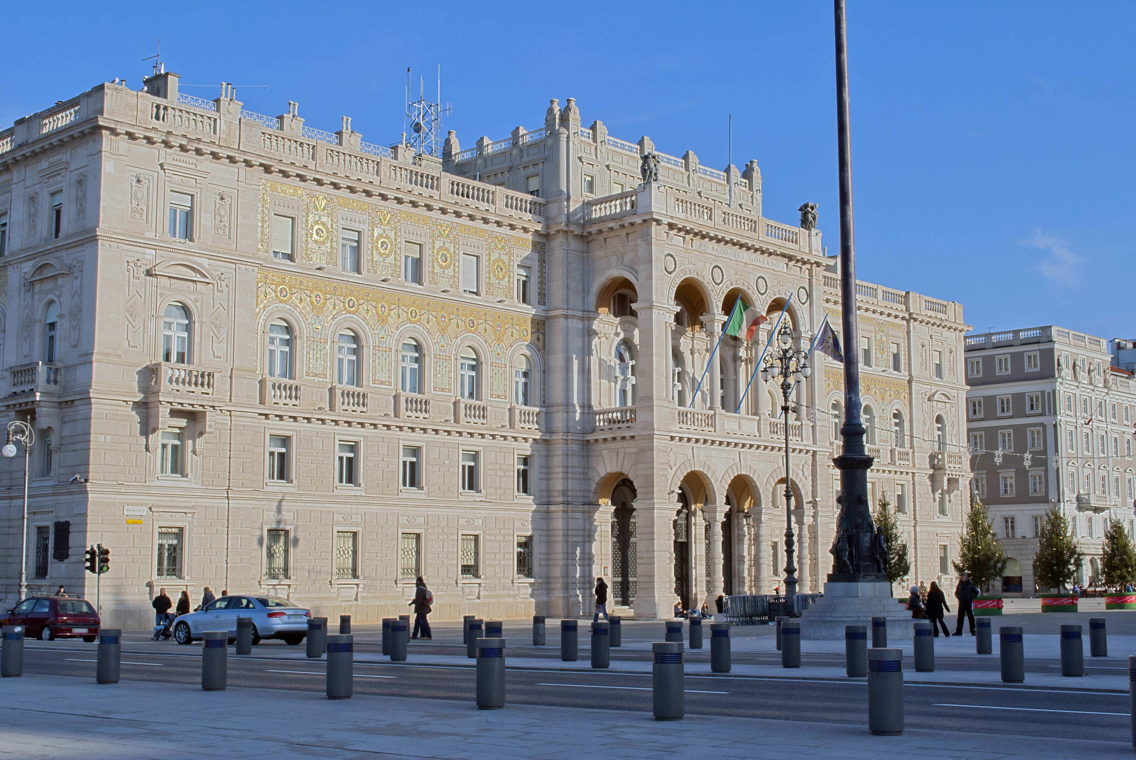 Piazza Unità d'Italia, Triest, Palazzo del Governo.